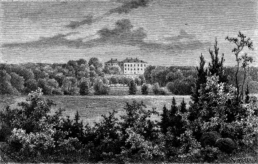 Venngarn castle, Sigtuna, Sweden (1875), drawing by Carl Svante Hallbeck (1826-1897).